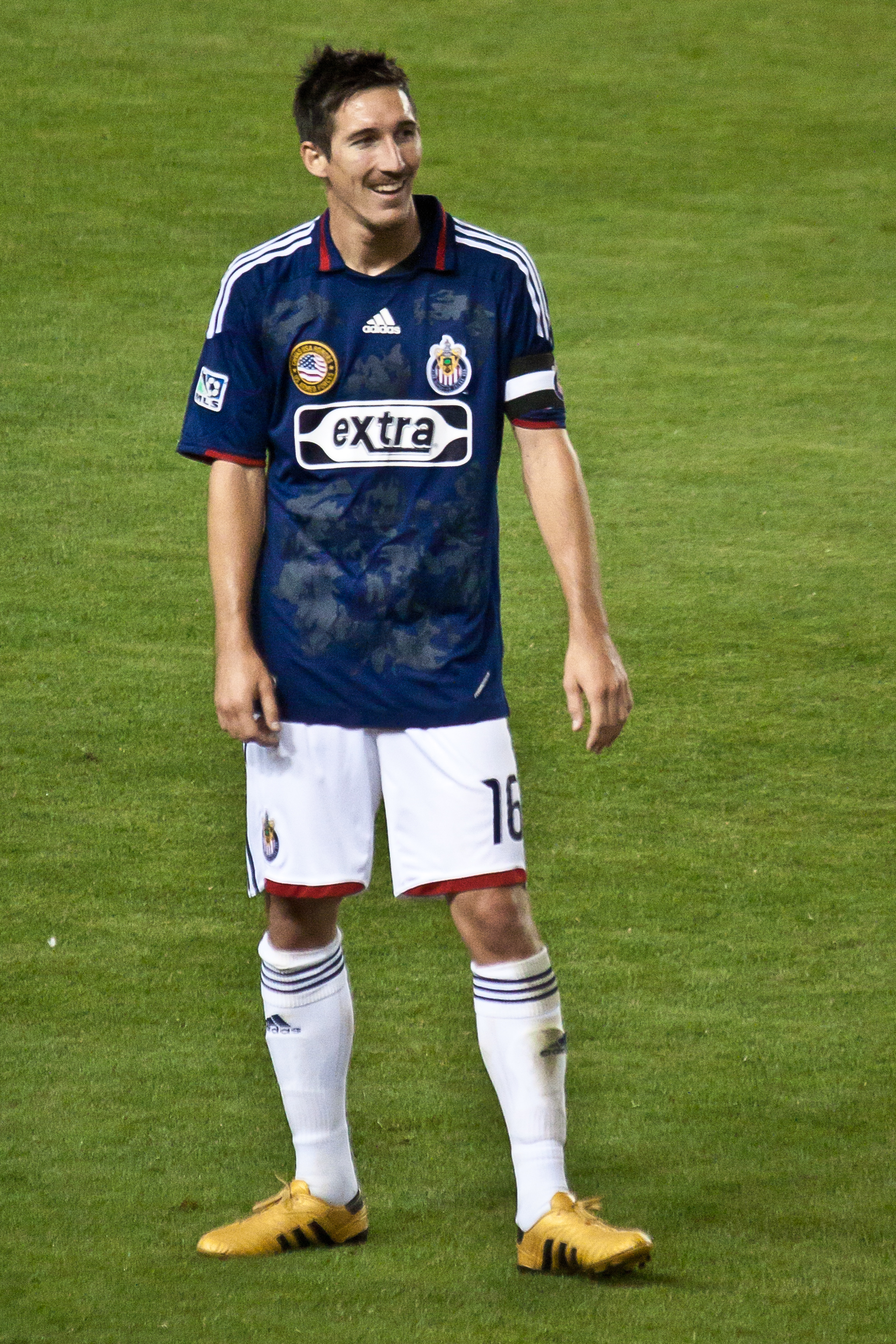 Sacha Kljestan reacts to a referee's decision during a break from play in the Chivas USA v Houston Dynamo Major League Soccer match of 08 May 2010